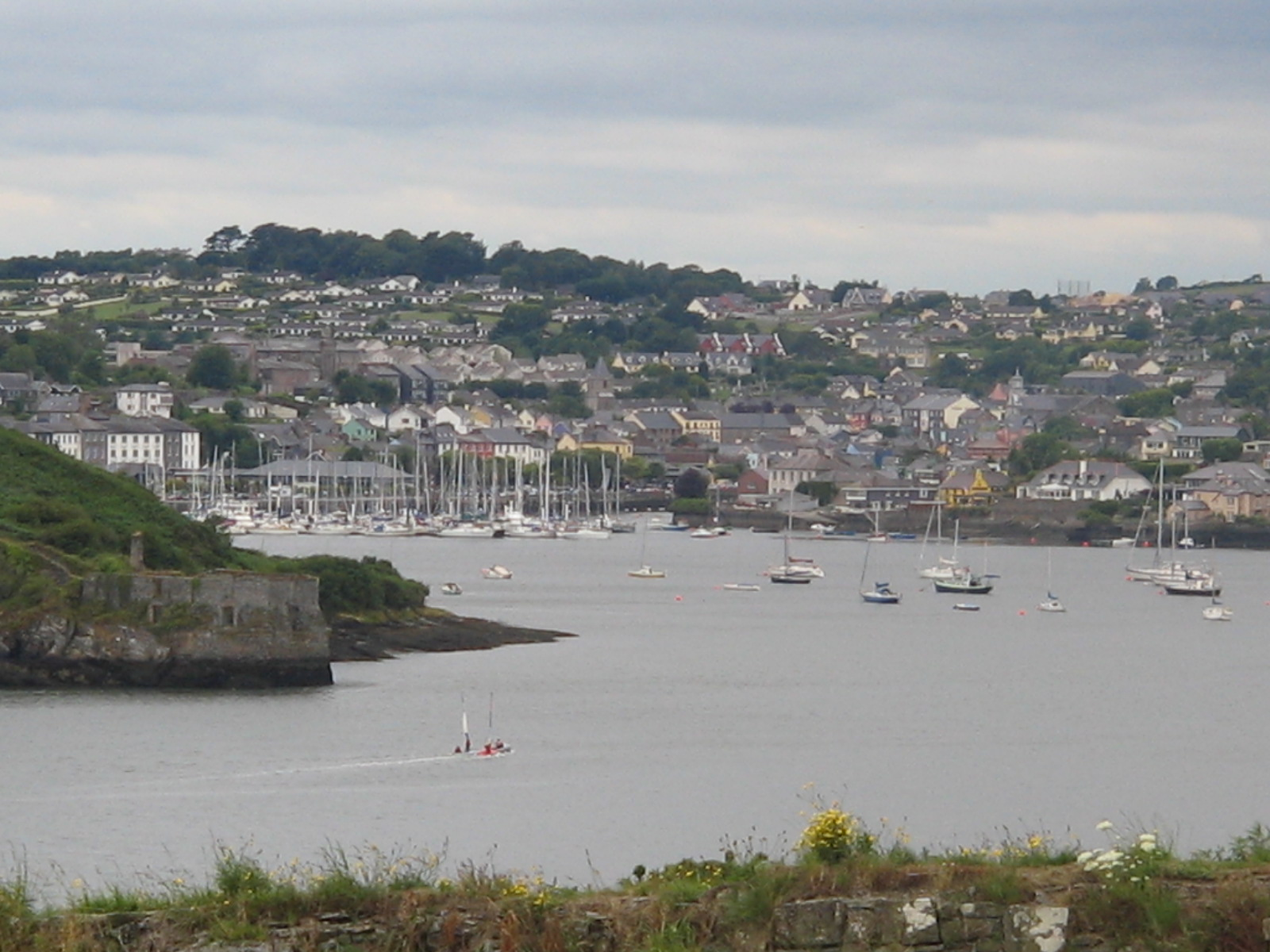 Town of Kinsale in the Ireland. Harbour.